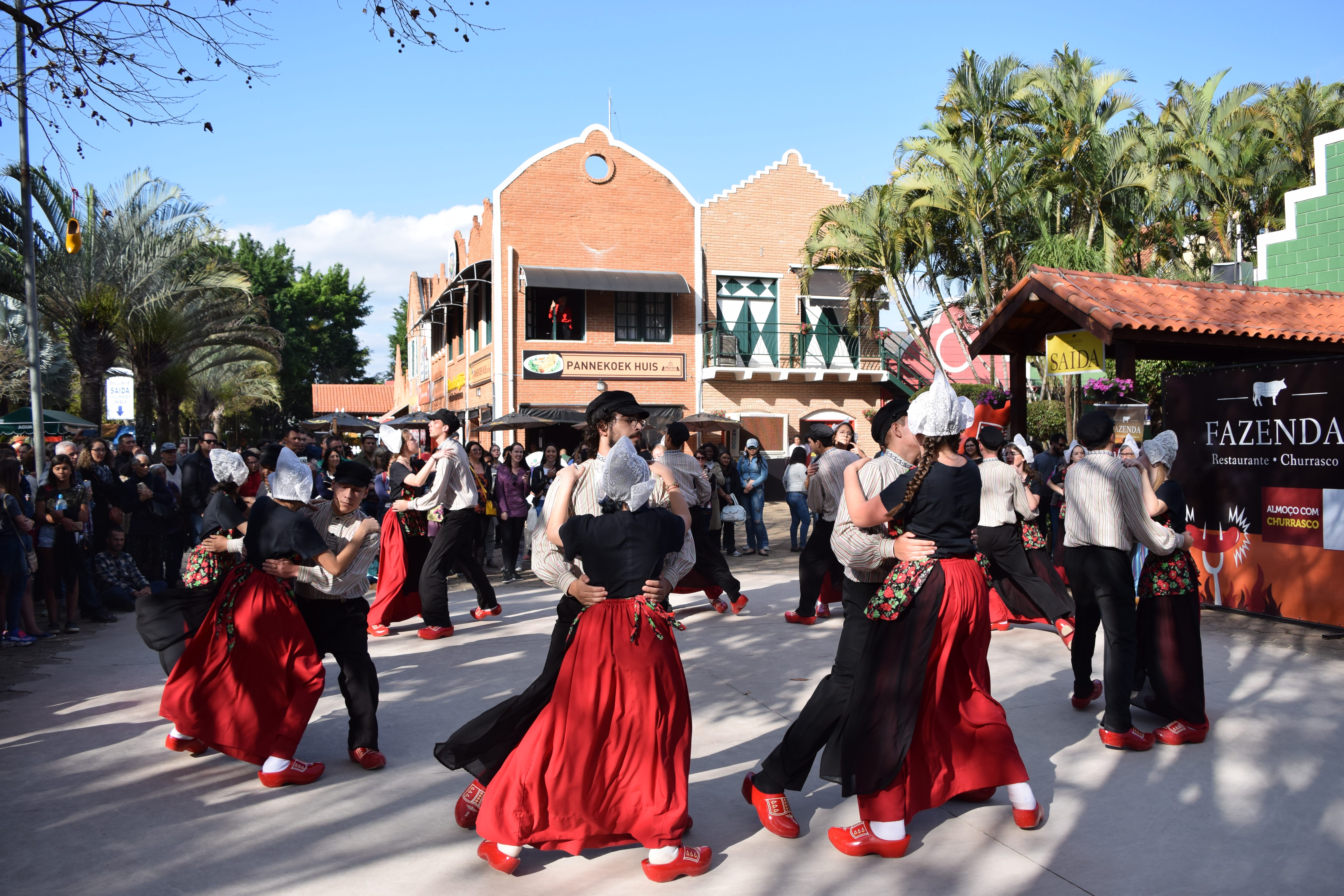 This photo has been taken in the country: Brazil